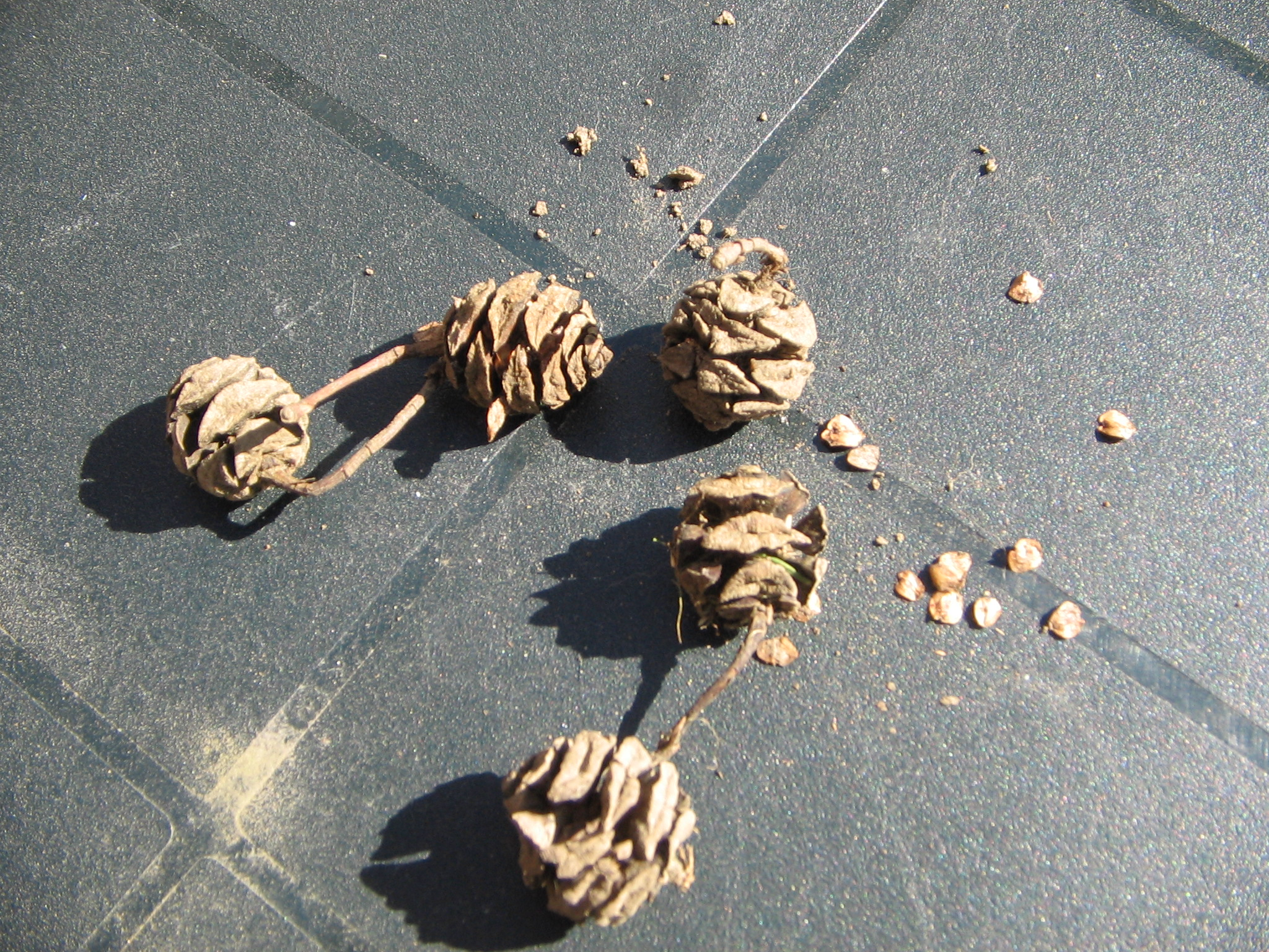 Metasequoia glyptostroboides (female cones)